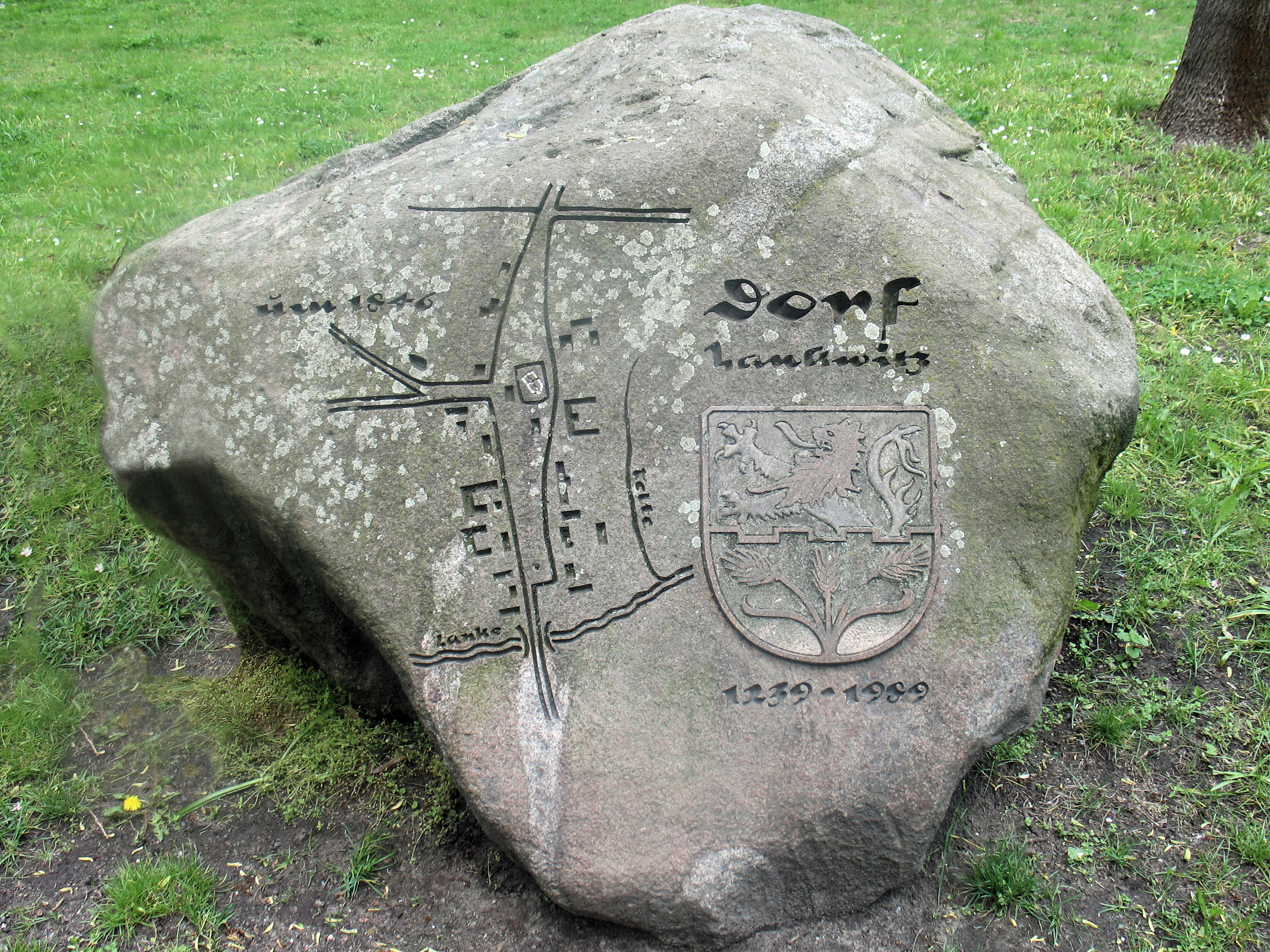 Memorial stone, Dorf Lankwitz, Alt-Lankwitz 47, Berlin-Lankwitz, Germany